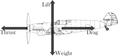 Steady flight is defined as flight with no net acceleration. This means the forces of lift, thrust, drag and weight all cancel out and the plane is left to fly at a constant velocity whether this is level flight, a climb or a shallow dive.